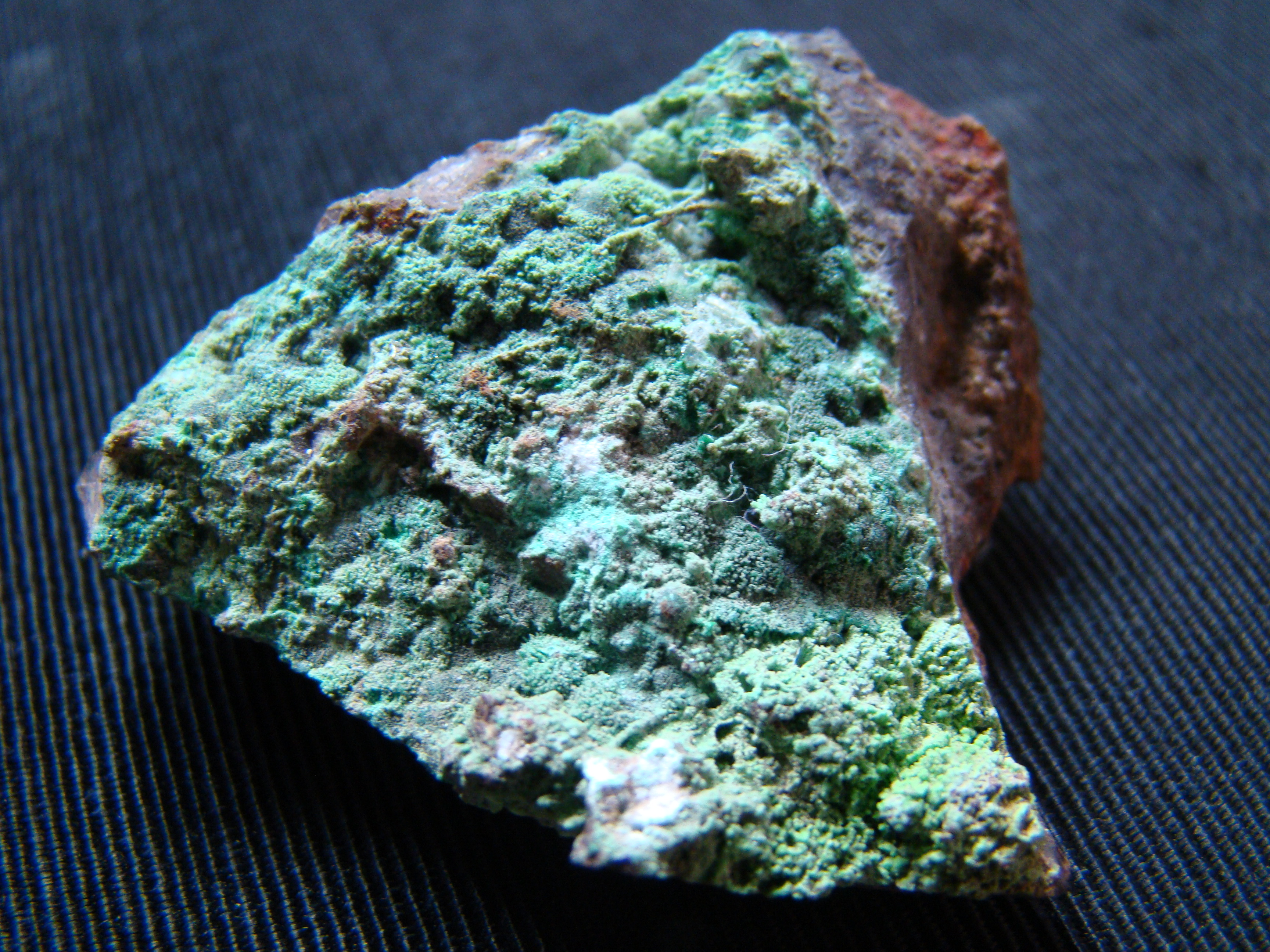 A crust of conichalcite (CaCuAsO4(OH)) on a rock collected in the Ojuela Mine, Mapimí, Mun. de Mapimí, Durango, Mexico. Size: 43mm x 39mm x 18mm Weight: 25.5g (0.9oz)